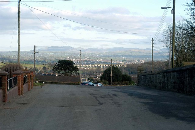 Bessbrook A view of the Craigmore Viaduct which carries the Belfast to Dublin railway line across the valley. Newry is beyond the viaduct, with the Mourne Mountains in the background.